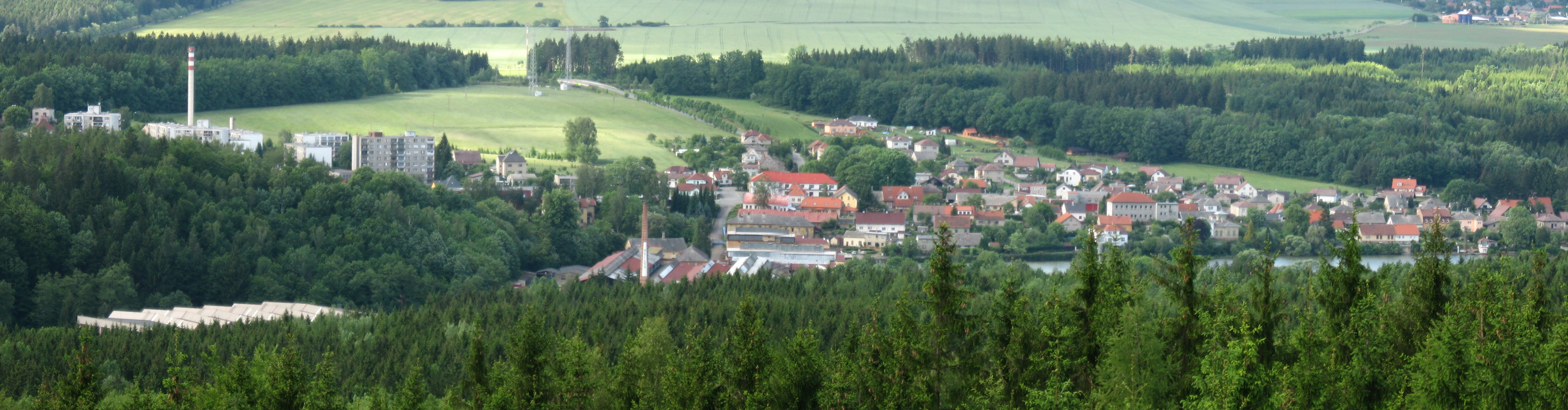 Panorama view of village Holoubkov, Pilsener province, CZ